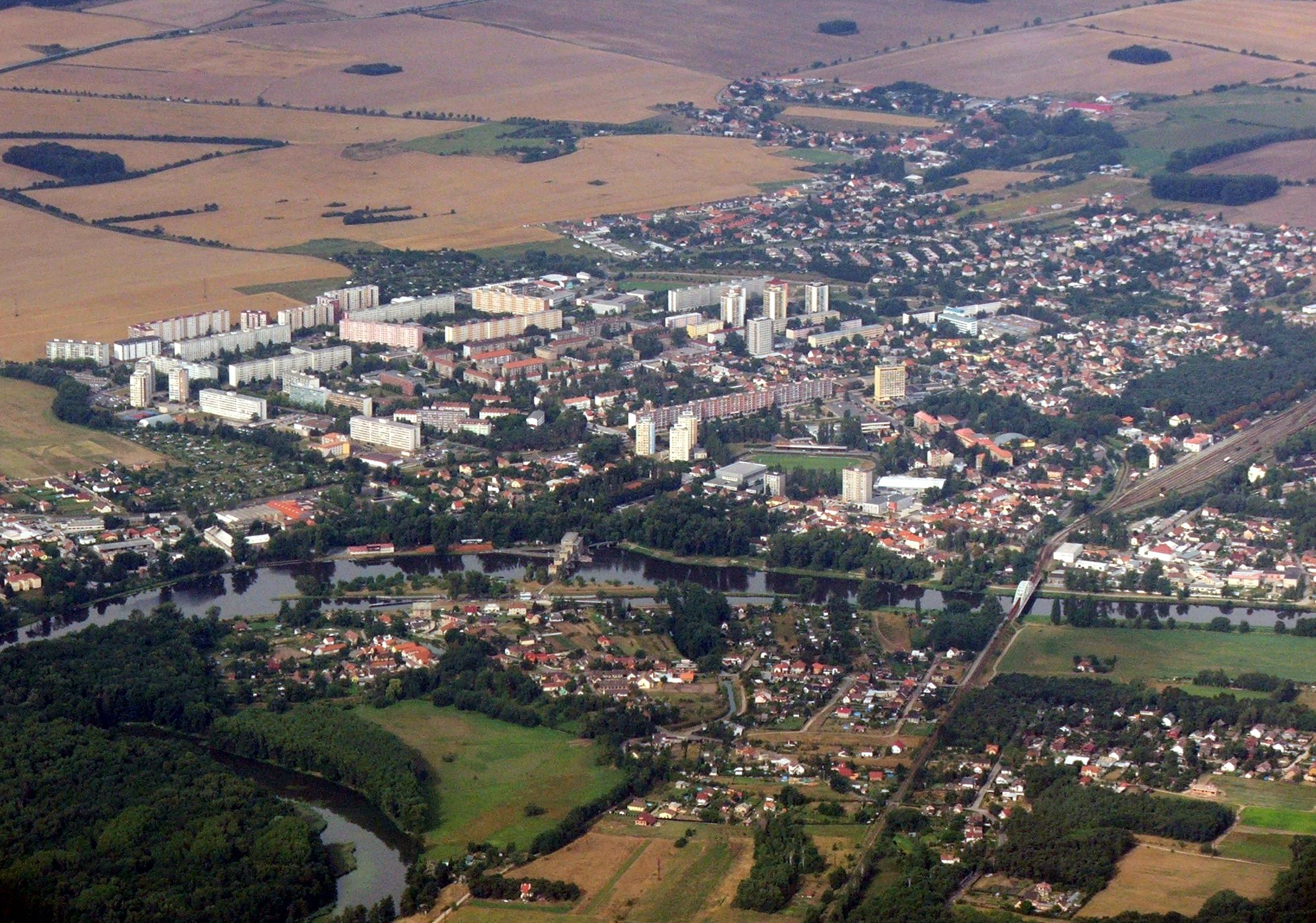 Aerial view of Neratovice, Czechia